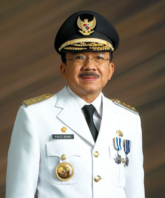 Official photo of Fauzi Bowo as the Governor of Jakarta. Published by the Office of Communication, Informatics and Public Relation, Jakarta Provincial Government in 2007